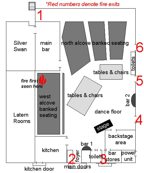 Floor plan of the former Stardust nightclub, Dublin, Ireland